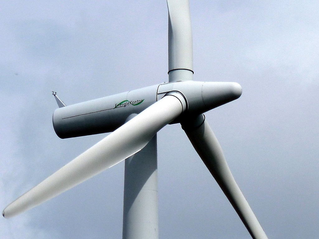 Wind turbine (Type: AN Bonus 1300/62) of Energiekontor AG in the "Goldner Steinrueck" wind farm near Ulrichstein, Hesse, Germany.